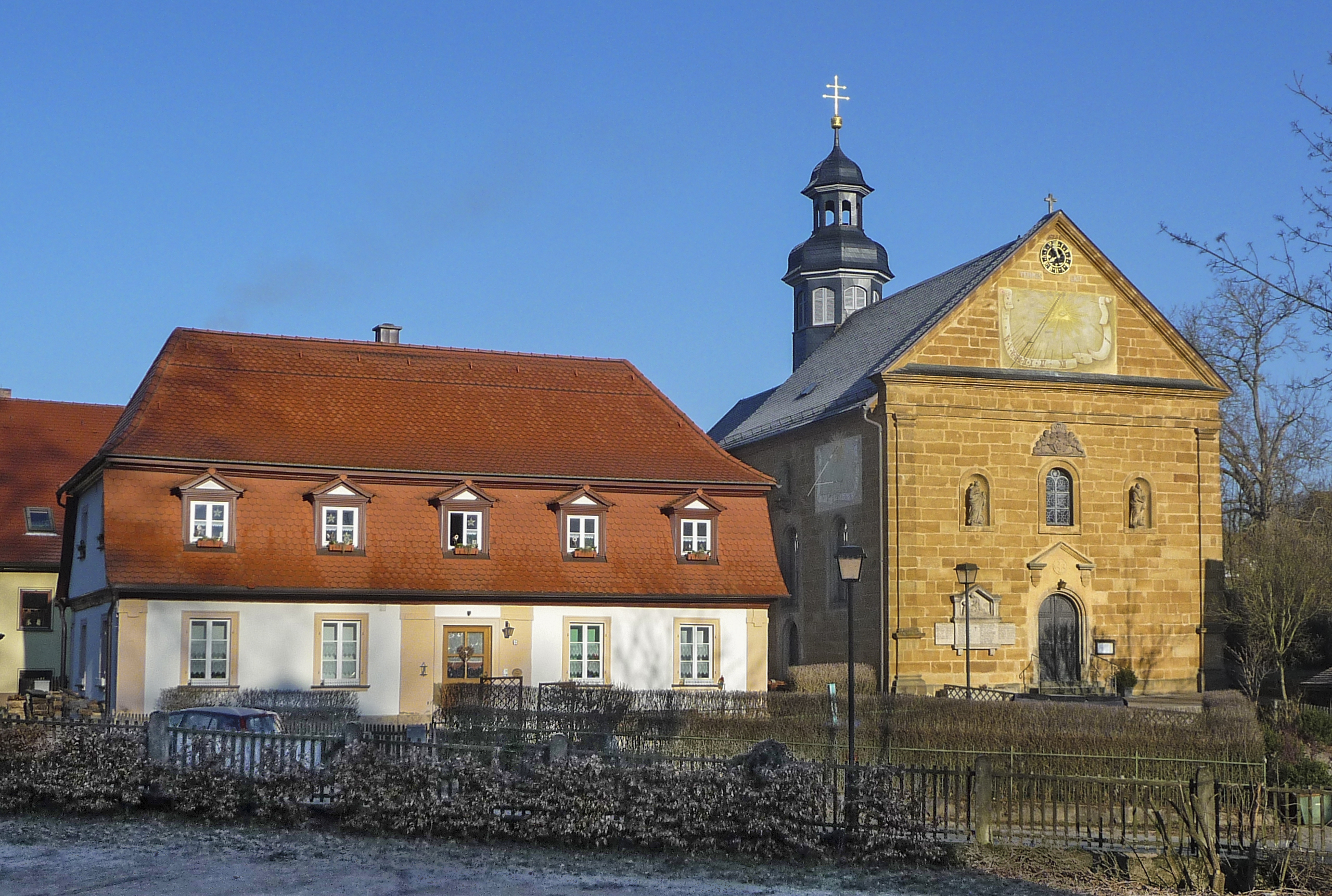 Burgellern